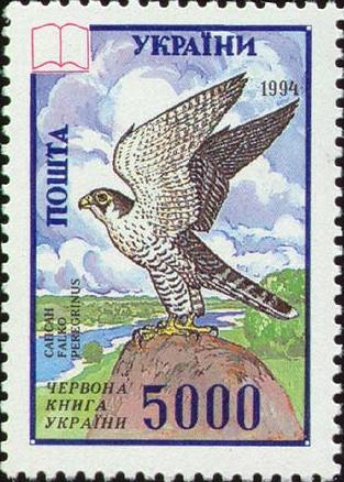 Falco peregrinus on stamp of Ukraine